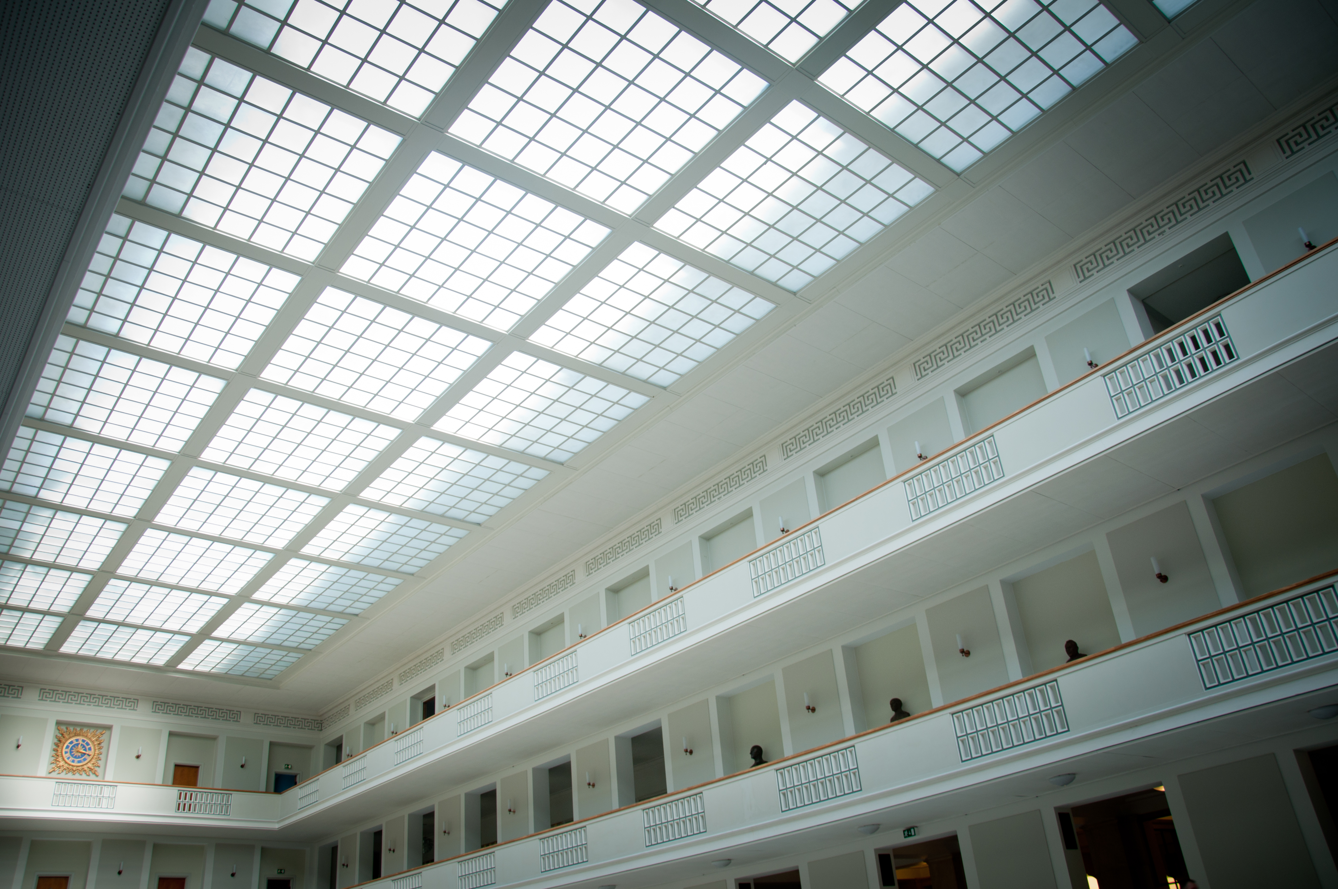 Interior from Gentofte Town Hall